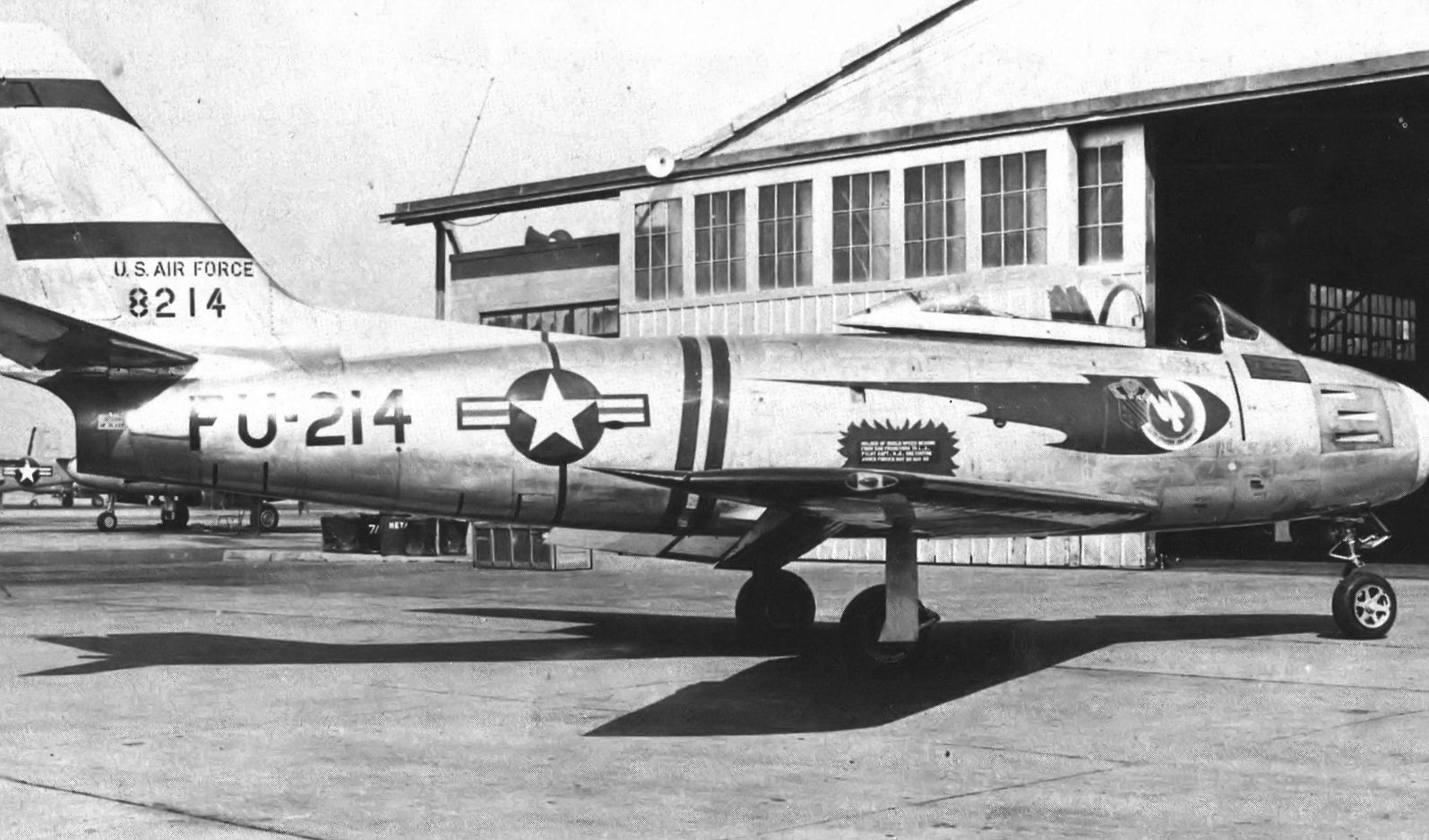 71st Fighter-Interceptor Squadron North American F-86A-5-NA Sabre, Griffiss AFB, New York, 1950